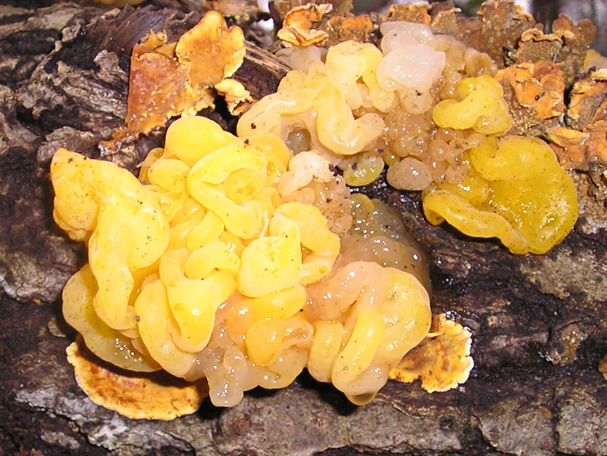 Tremella mesenterica in a French wood.